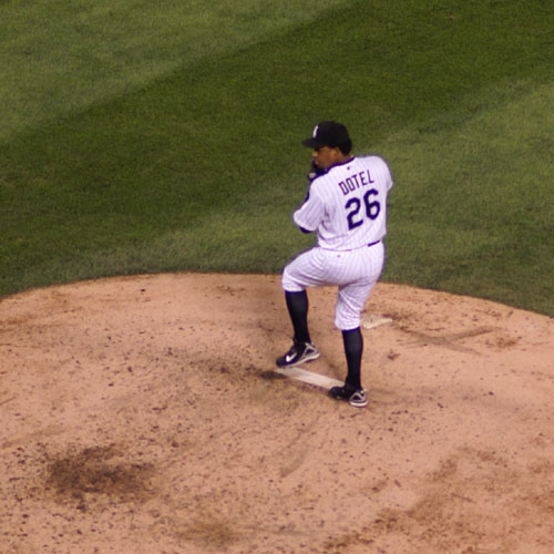 Pitcher Octavio Dotel of the Chicago White Sox